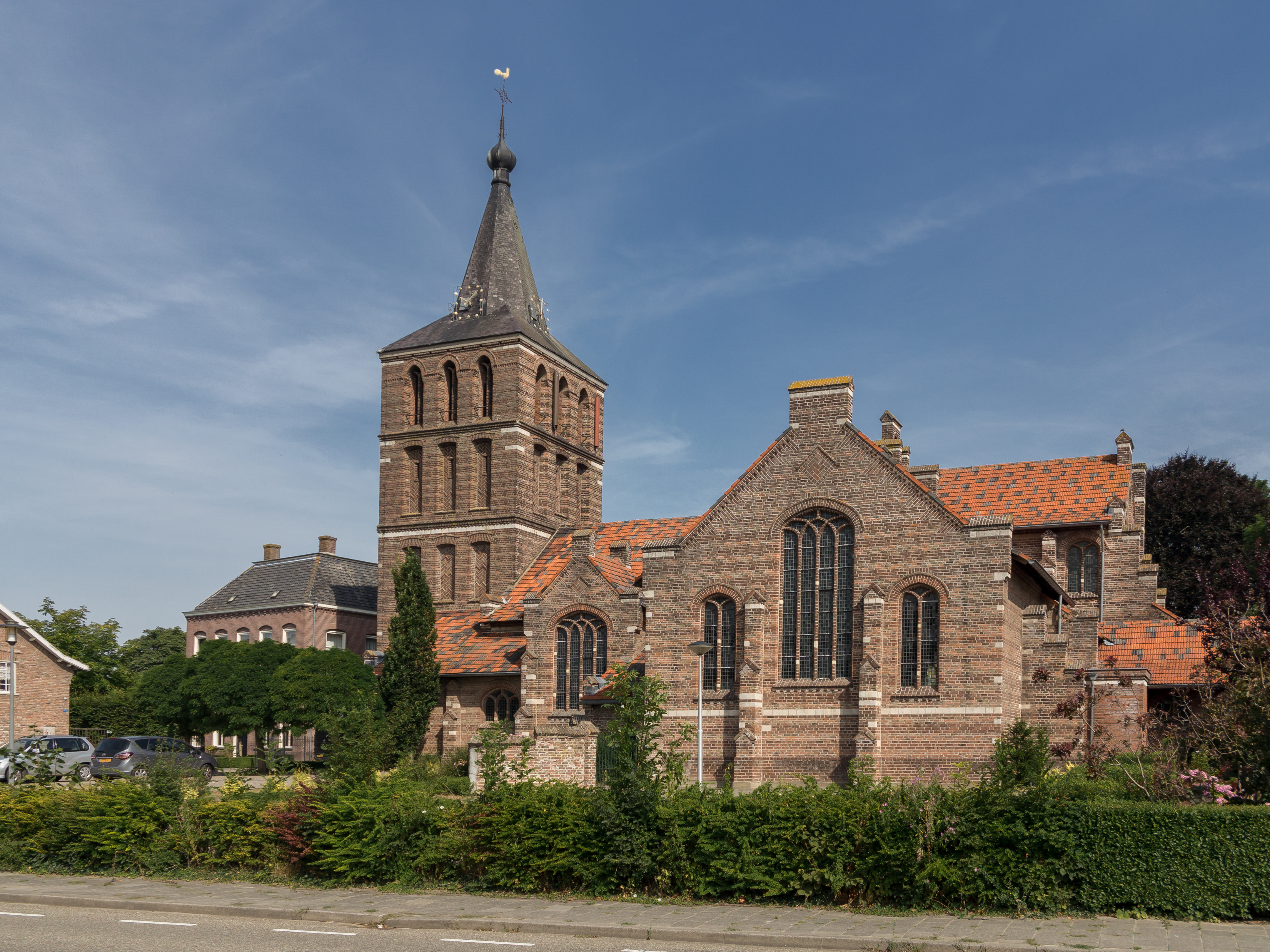 Lage Zwaluwe, church: de Sint Johannes de Doperkerk